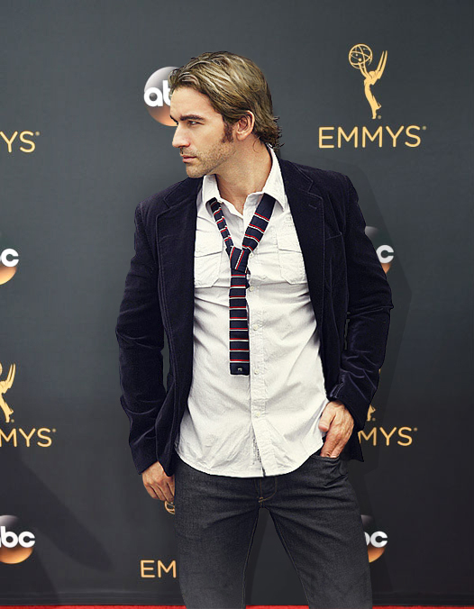 Francis J Cura (Francesco Cura) at the Emmy Awards in Los Angeles on September 18 2016